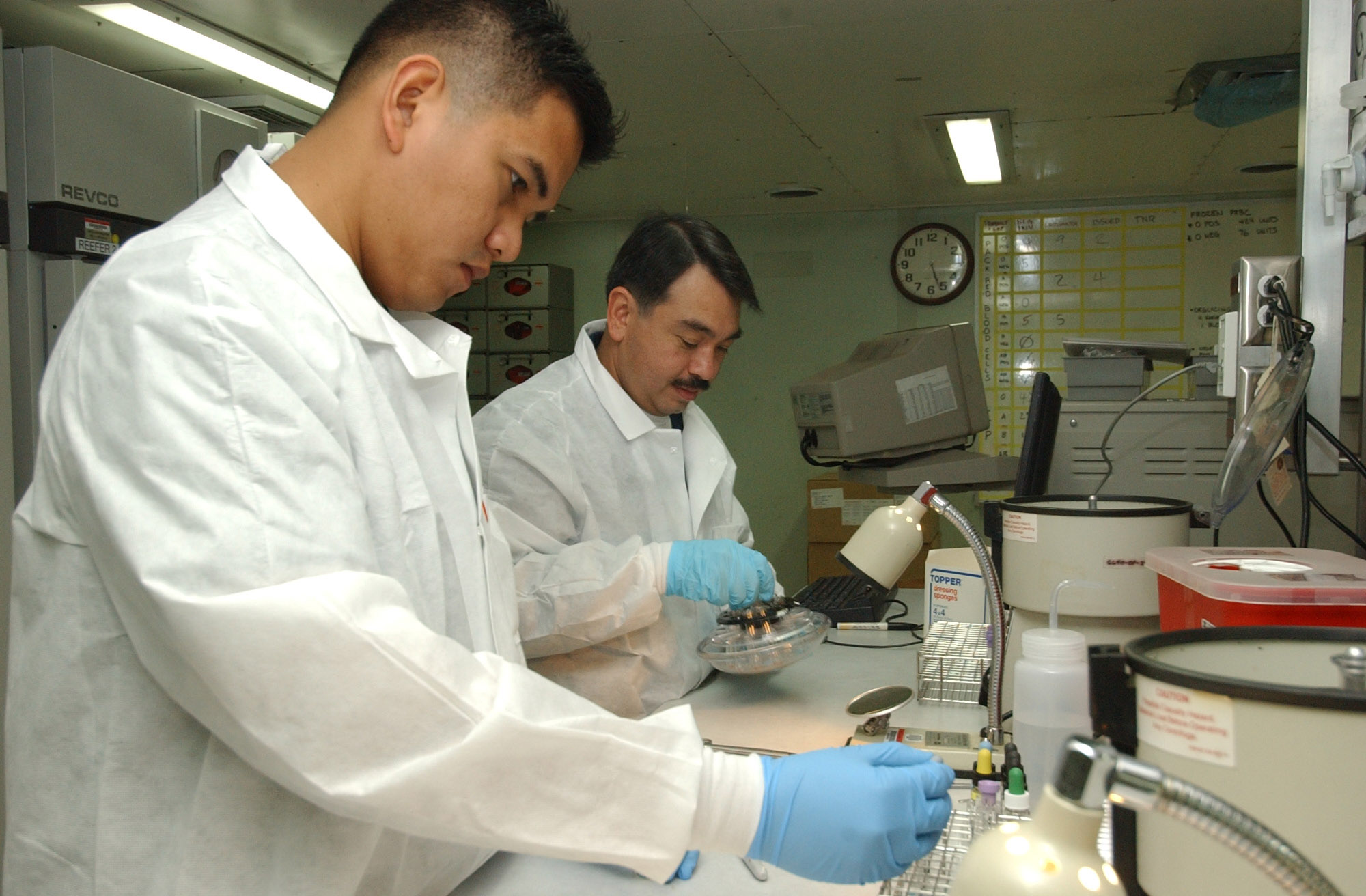 Indian Ocean (Feb. 17, 2005) – Hospital Corpsman 2nd Class Hommer Corona, left, and Hospital Corpsman 2nd Class Renulfo Moralesa, a Lab Technician aboard the Military Sealift Command (MSC) hospital ship USNS Mercy (T-AH 19), verifies the result of a blood sample. Mercy is serving as an enabling platform to assist humanitarian operations ashore in ways that host nations and international relief organization find useful. Mercy is currently off the waters of Indonesia in support of Operation Unified Assistance, the humanitarian relief effort to aid the victims of the tsunami that struck Southeast Asia. U.S. Navy photo by Photographer's Mate 2nd Class Jeffery Russell (RELEASED)